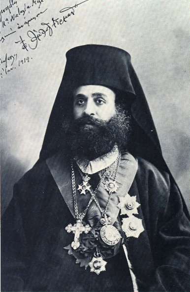 Picture of Bishop of Kastoria Germanos Karavaggelis